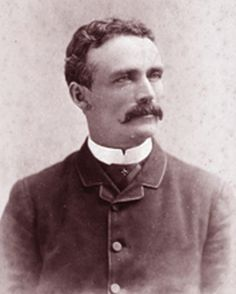 Photograph of Australian rules footballer H. C. A. Harrison.